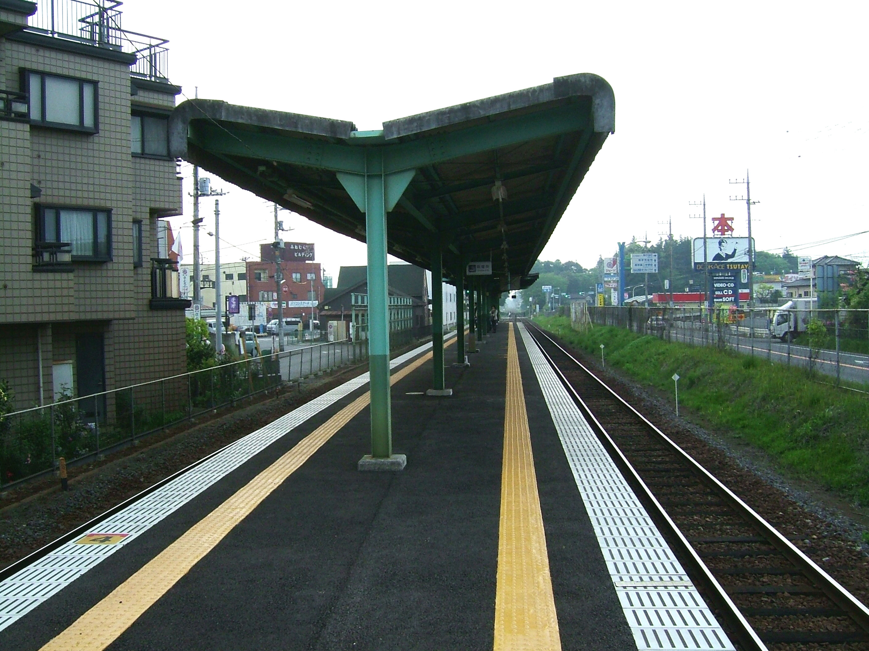 Shin-Toride Station platform (Kanto Railway Jōsō Line)